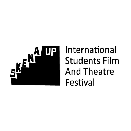 Logo of "Skena UP" Film Festival